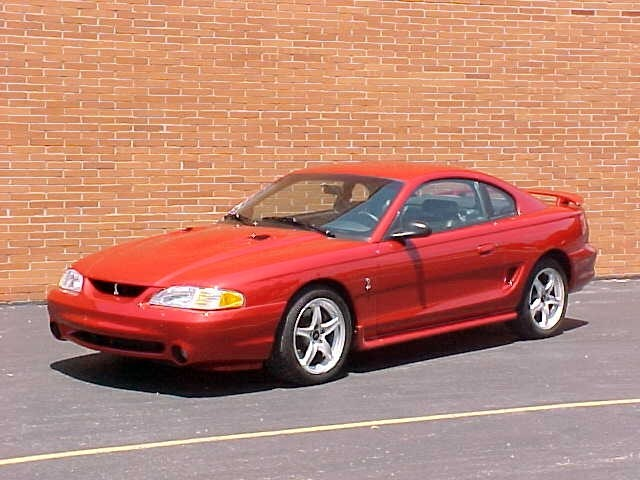 1998 Ford Mustang Cobra